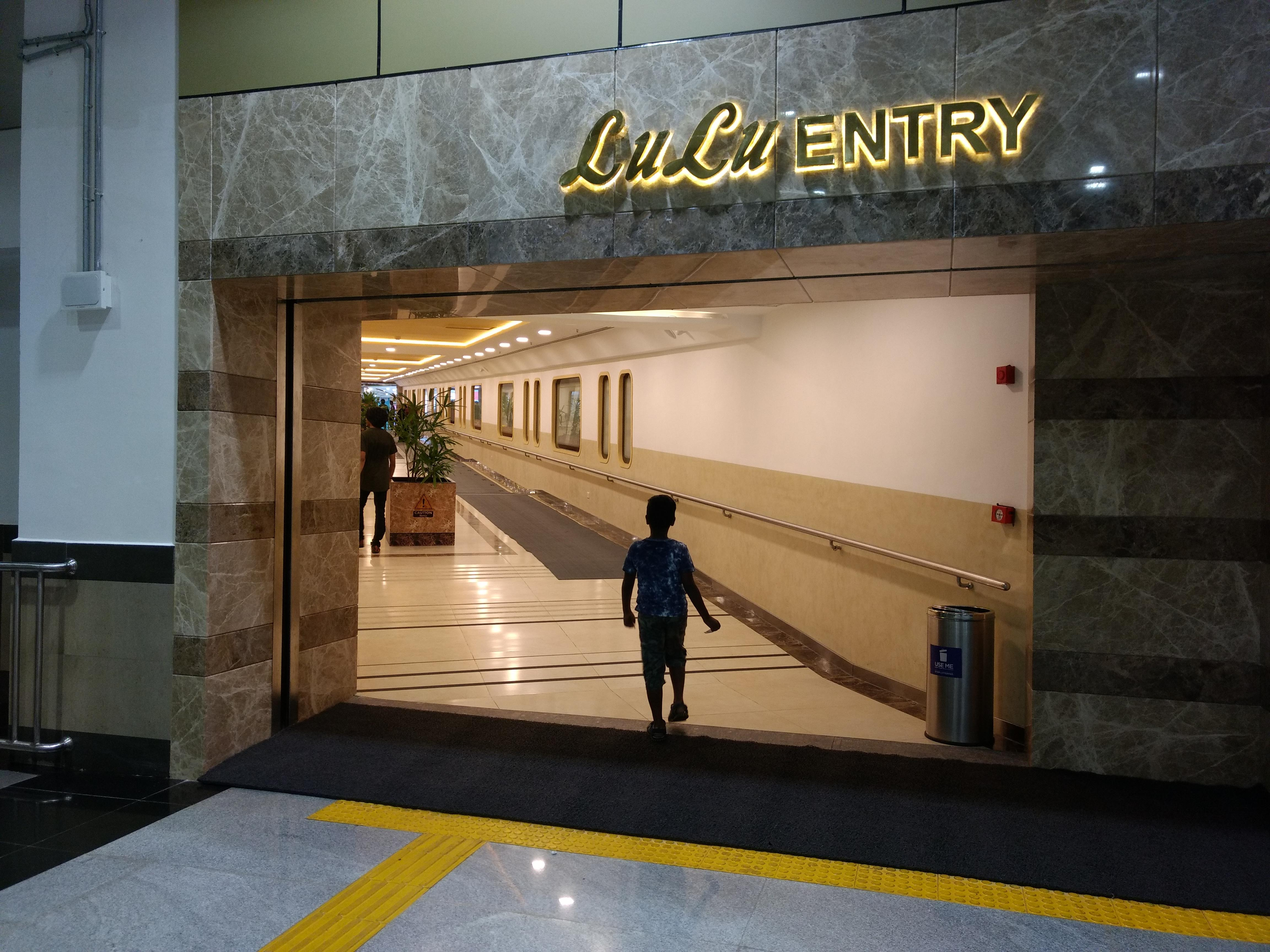 Corridor to Lulu Mall from Edappally Metro Station